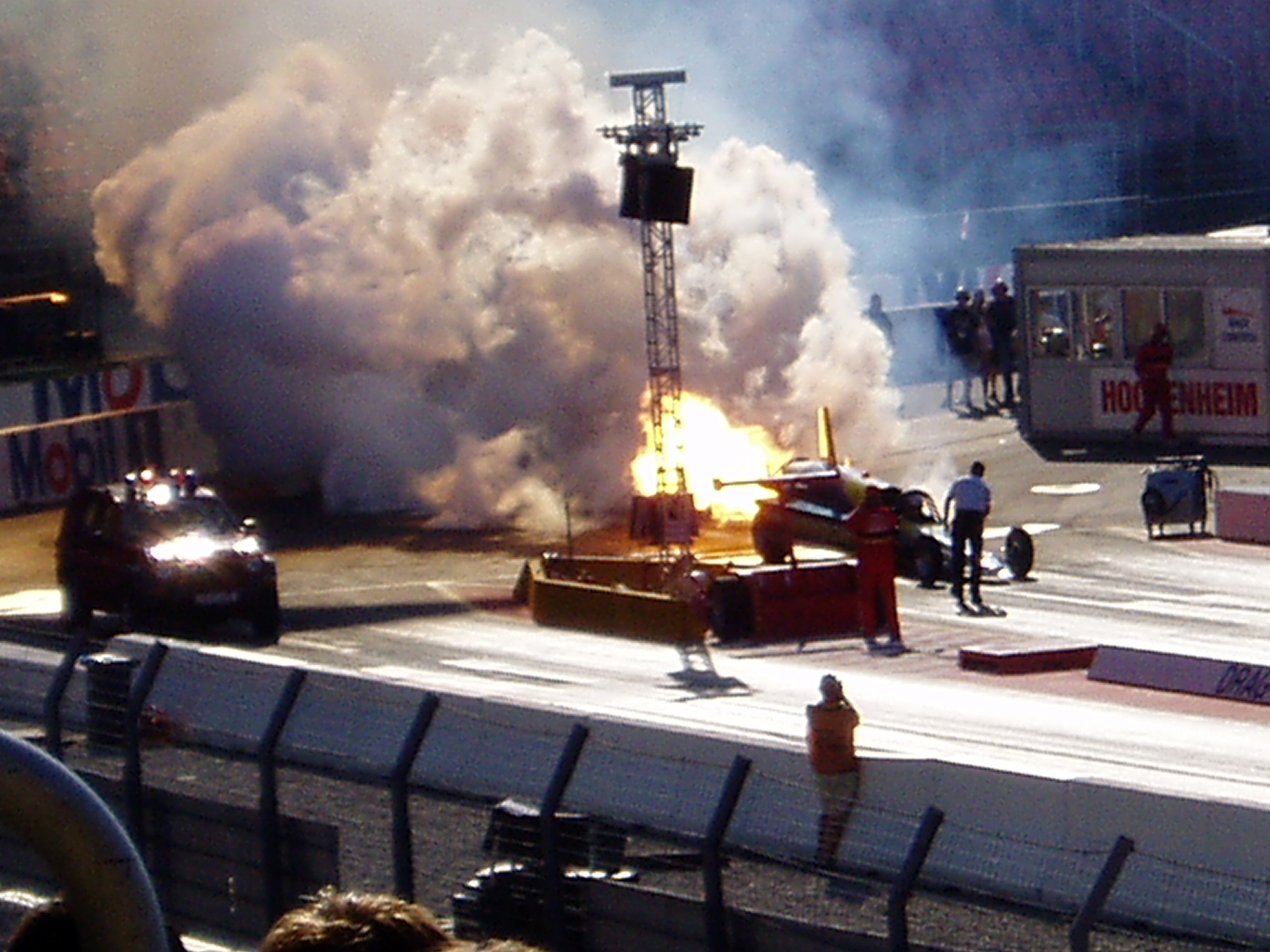 Jet dragster while warming up @ Nitrolympics 2003, Hockenheim